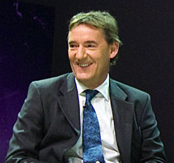 Nik Gowing hosts a live "Special World Debate" with panelists Economic Historian Niall Ferguson, French Finance Minister Christine Lagarde, Goldman Sachs Jim O'Neill, International Monetary Fund's Managing Director Dominique Strauss-Kahn and Chairmwoman of Sabanci Holding Guler Sabanci